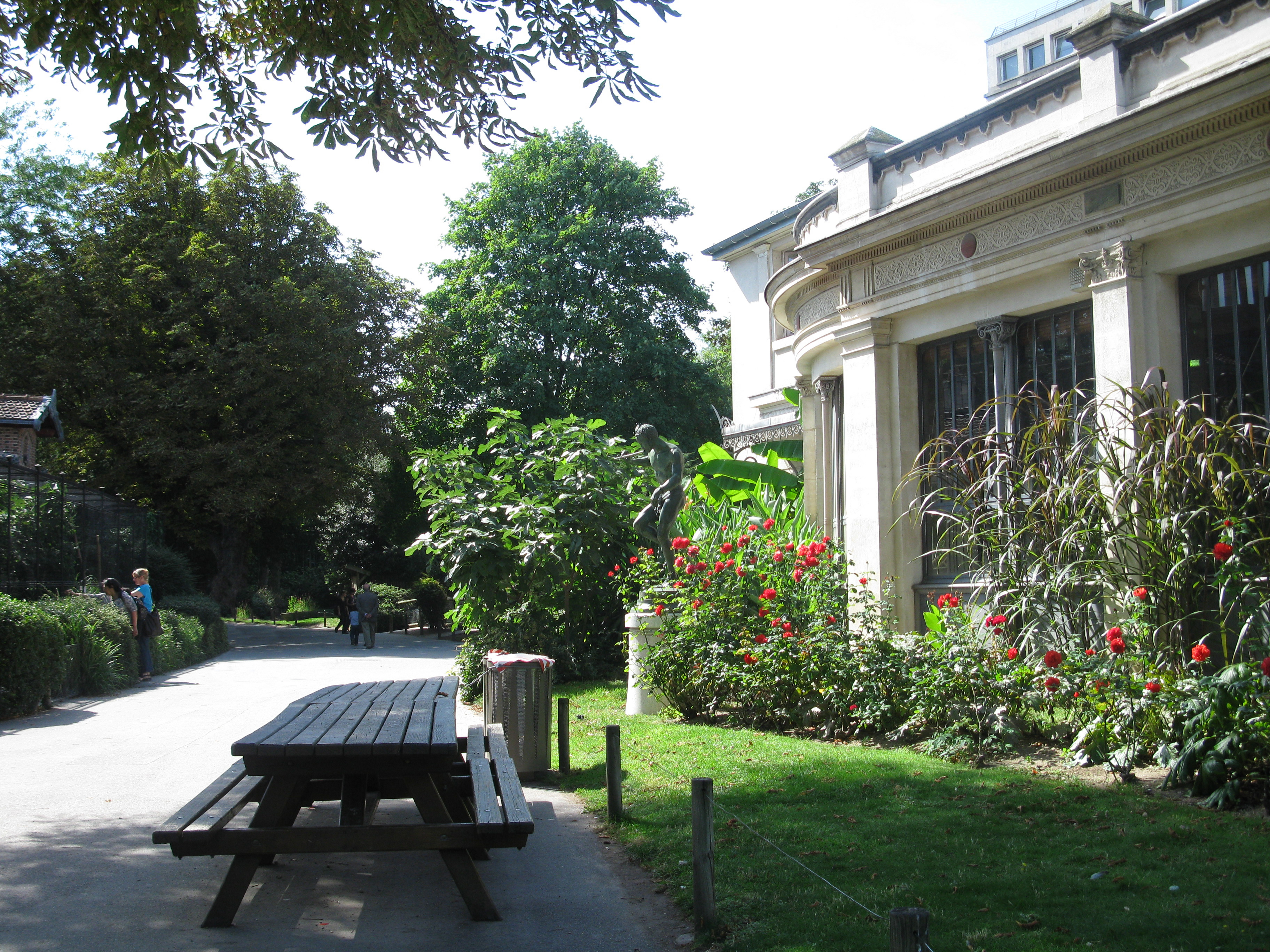 Herpetologic gallery, Muséum National d'Histoire Naturelle, Paris.